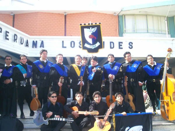 University Tuna is a musical group made up of university students. University Tuna - UPLA.